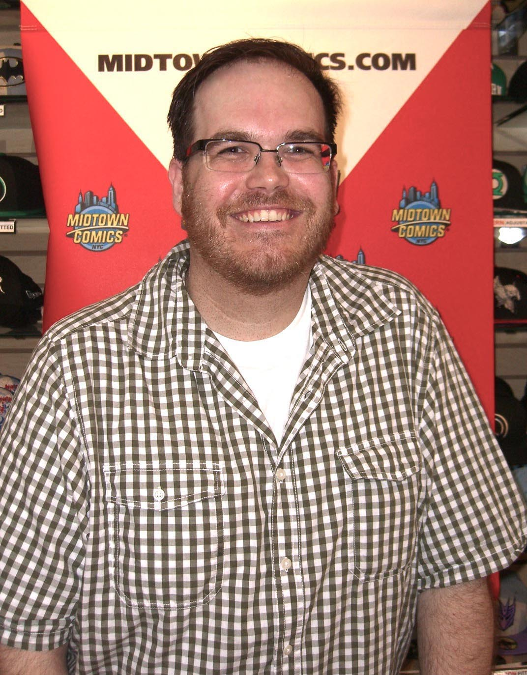 Comic book creator Alex Robinson at a May 27, 2011 meeting of the Midtown Comics book club in Manhattan, where he discussed his 2008 graphic novel, Too Cool to be Forgotten. Photographed by Luigi Novi. This photo is not in the public domain. It may, however, be used, modified and published for any purpose, free of charge, only if the photographer is properly credited, either by linking the photograph to this page, or with an easily visible credit to the photographer placed near the photo in each instance in which it is used. (See licensing information below.) Publication of this photo without this proper attribution constitutes copyright infringement. If you have any questions, you can contact me on my Wikipedia Talk Page.